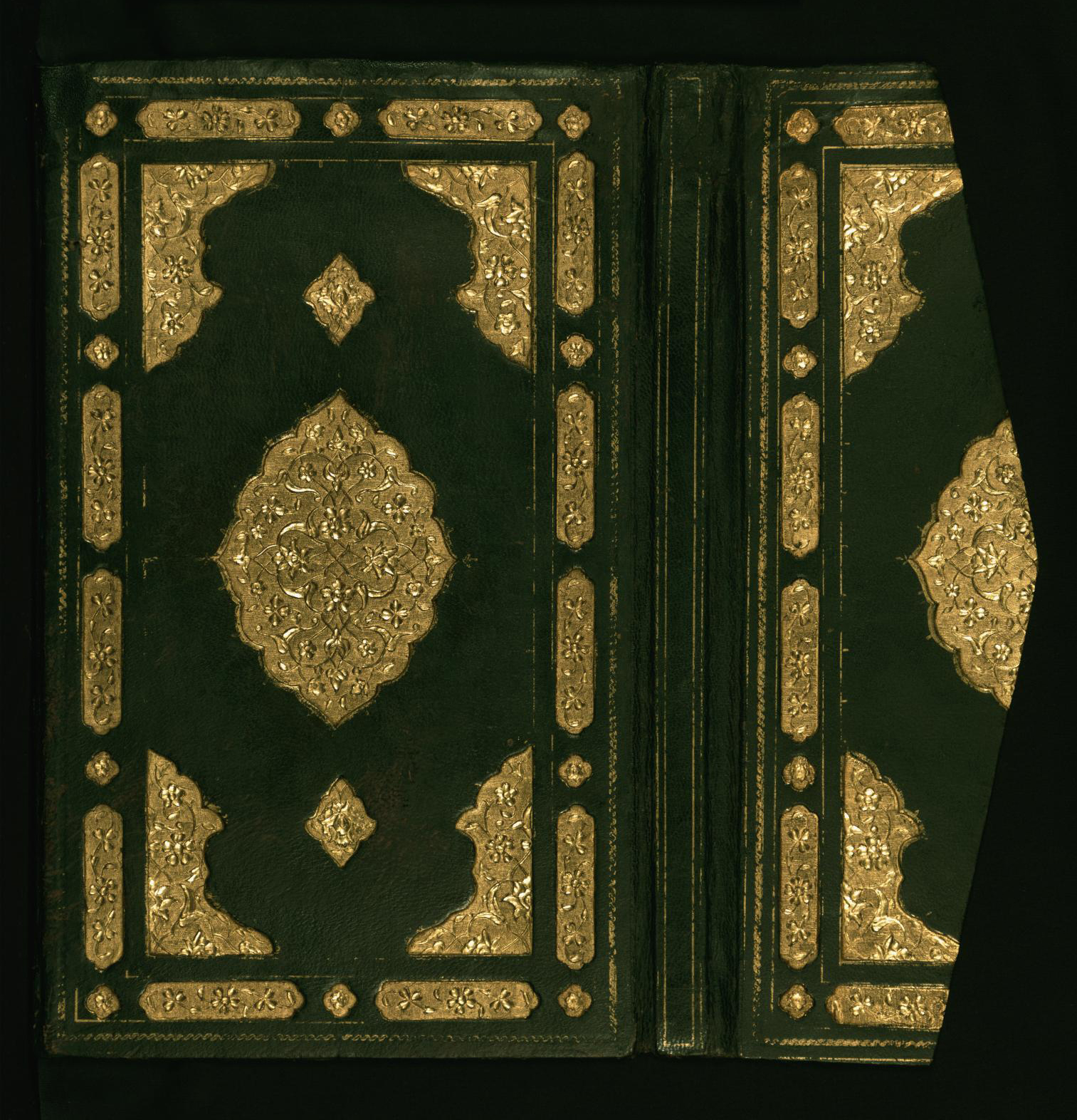 Walters manuscript W.642 is an illuminated copy of the well-known poem (masnavi) Subhat al-abrar (The rosary of the righteous) by Nur al-Din 'Abd al-Rahman ibn Ahmad Jami (died 898 AH/AD 1492), produced in Safavid Iran. The text, written in Nasta'liq script, was copied by Haydar al-Husayni in 965 AH/AD 1557-1558, according to the Arabic colophon (fol. 112a). The manuscript opens with an illuminated double-page incipit inscribed with the title of the work and the author's name. The subsequent pages have decorated borders and gold-sprinkled margins. The dark brown goatskin binding, which is original to the manuscript, has light brown doublures decorated with filigree work on a multi-colored ground. The original shelfmark of 3934 is inscribed on the tail edge of the codex.